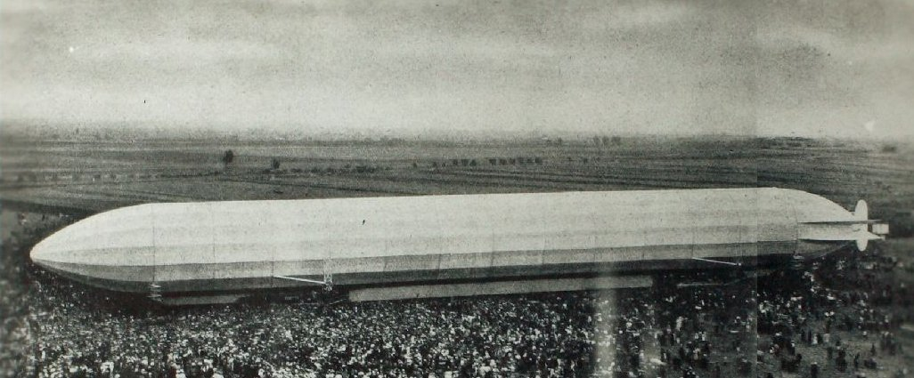 LZ-6 Delag Ship, First commercial airliner